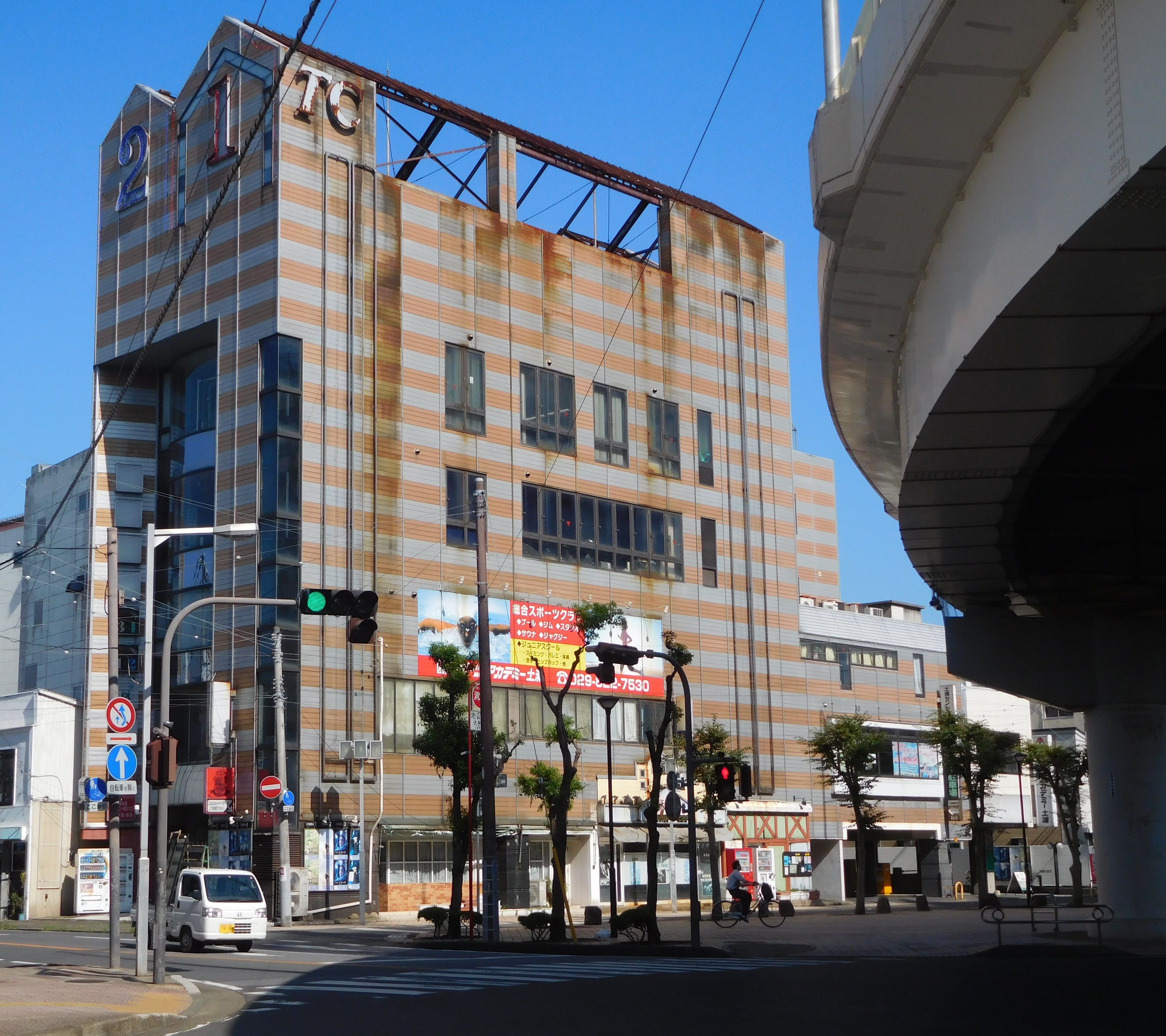 This is the TC Building in Tsuchiura, Ibaraki, Japan. This building has a cinema "Tsuchiura Central Cinemas".